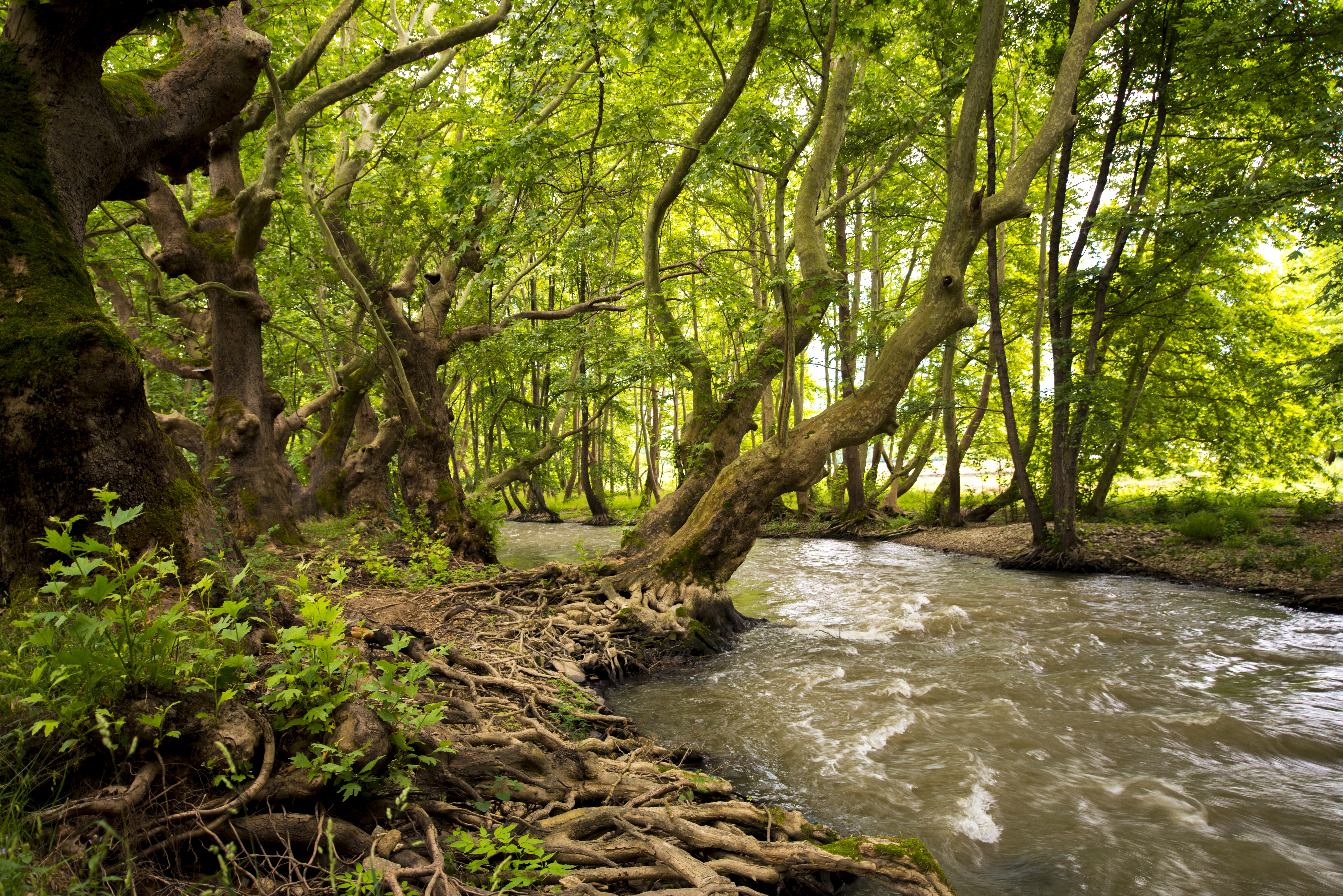 Strumeshnitsa river, to the entrance of "Samuilova krepost" (Samuil fortress) complex. Natura 2000 protected zone Rupite-Strumeshnitsa.